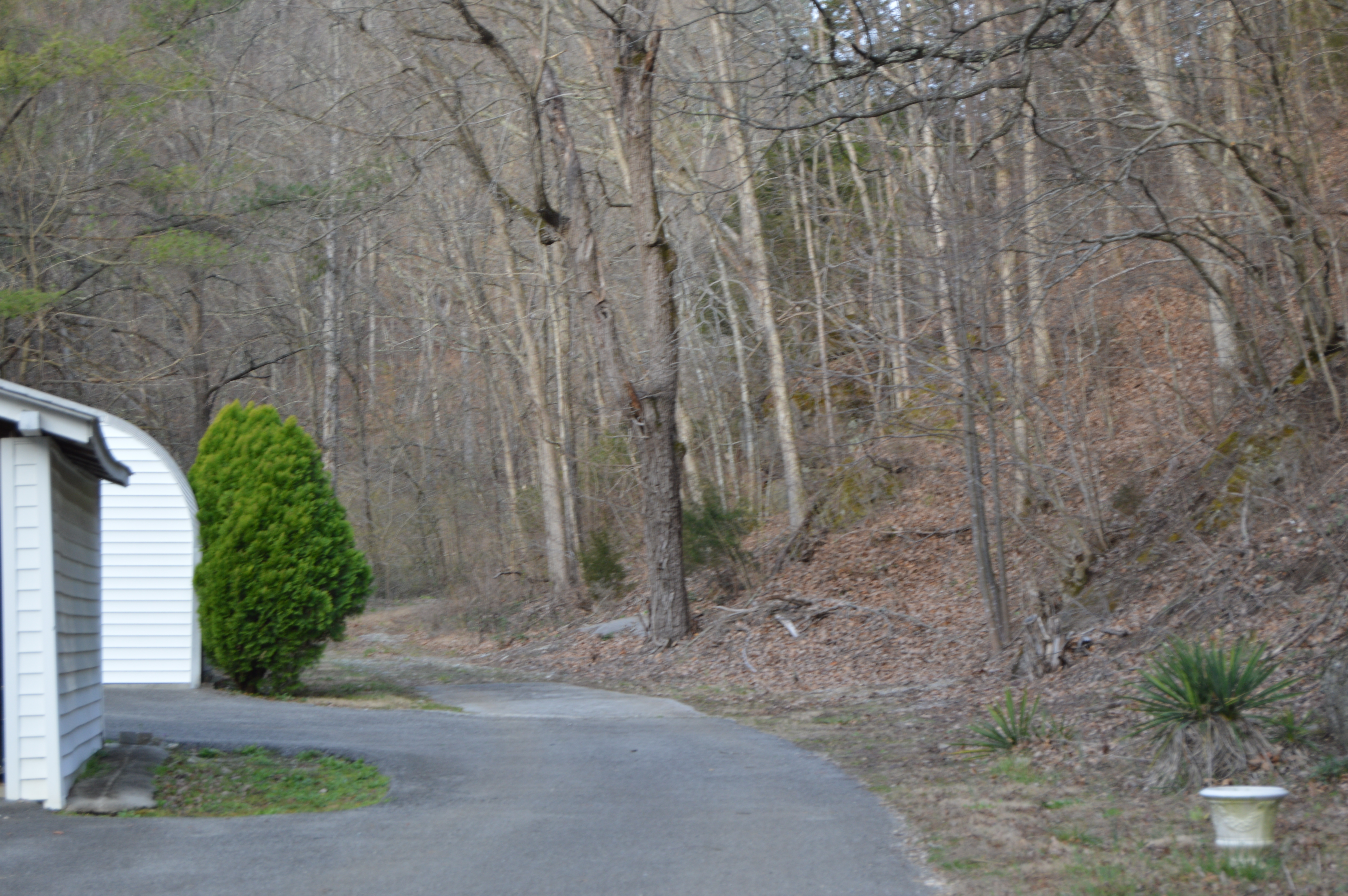 Driveway to the Nealy Gordon Farm, located in Walnut Hollow (off Thacler Road) south of Ironto in Montgomery County, Virginia, United States. The farmstead is listed on the National Register of Historic Places.